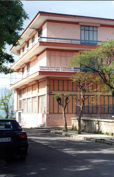 Outside view, image from the Ecclesiastical Museum, Edessa, Central Macedonia, Greece